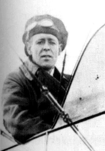 Lieutenant E Harrison (later Group Captain) in a B.E.2a at Central Flying School at Point Cook, Victoria, Australia